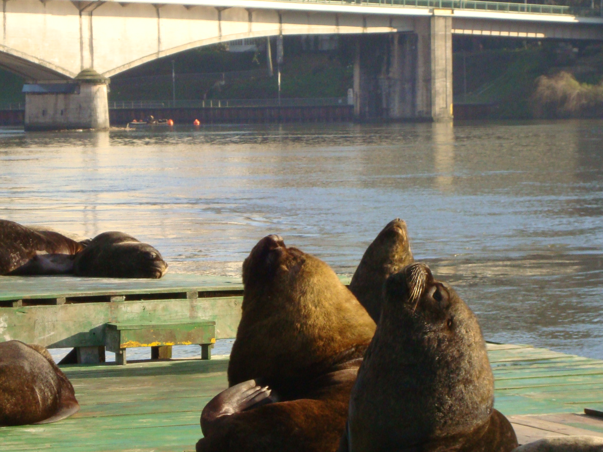 Valdivia, Chile